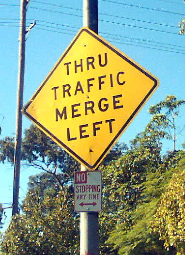 "Thru Traffic Merge Left" warning sign in Los Angeles.